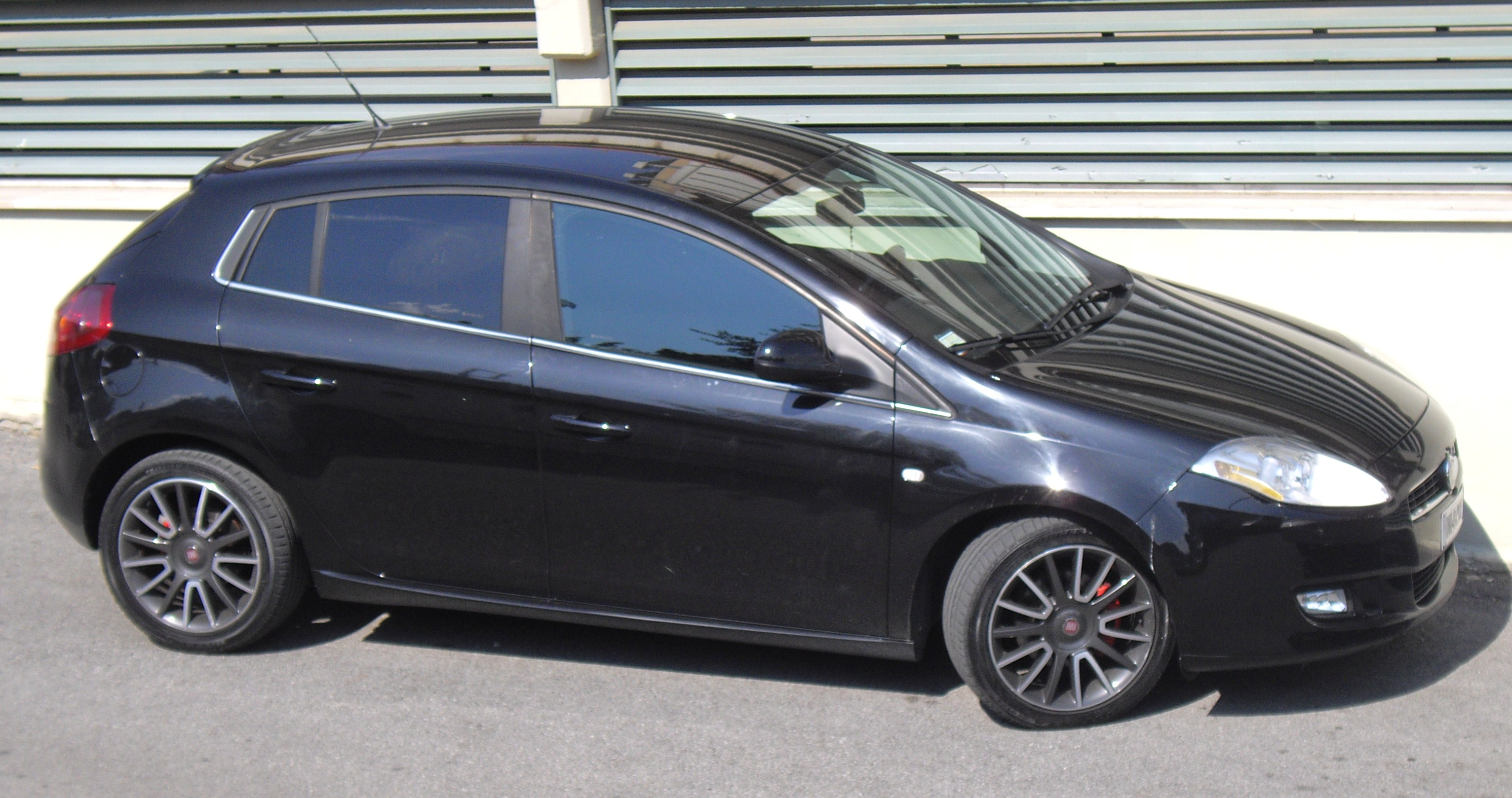 Fiat Bravo Sport